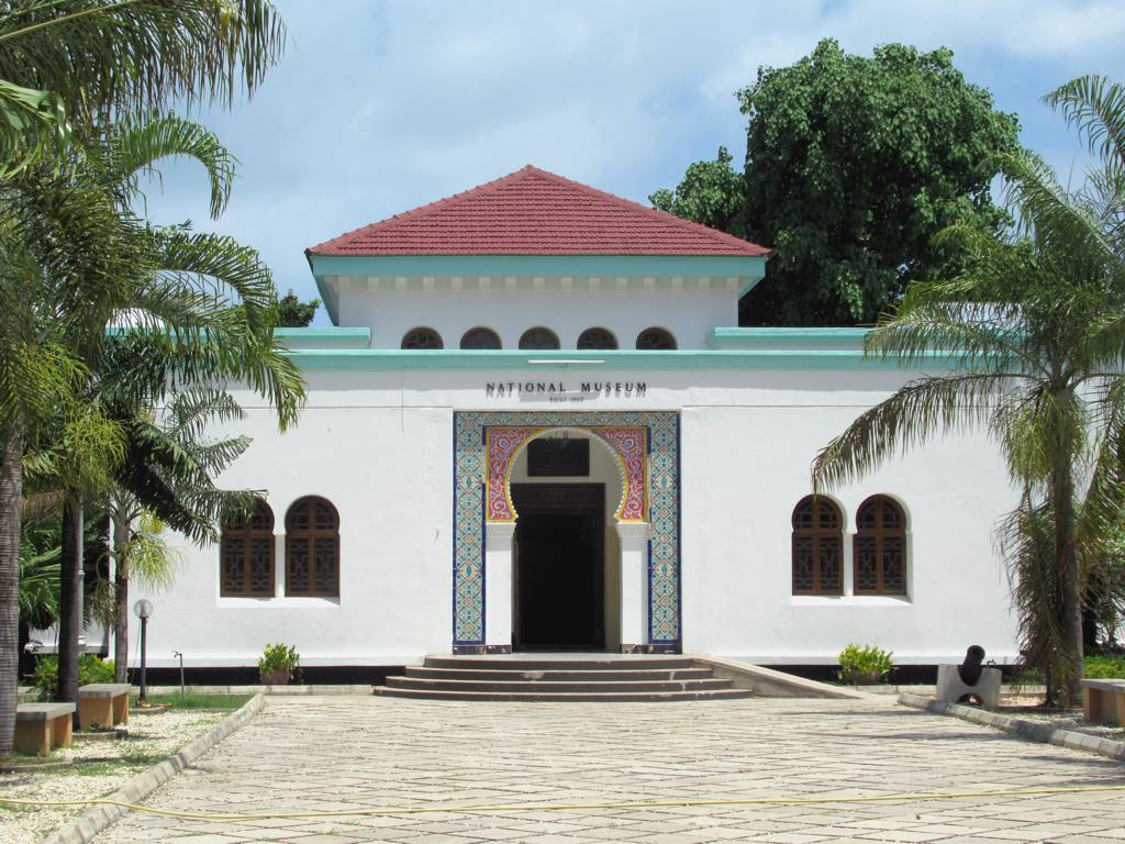 The National Museum and House of Culture in Dar es Salaam, Tanzania, opened in 1940. It showcases historical and ethnographic objects and photos.